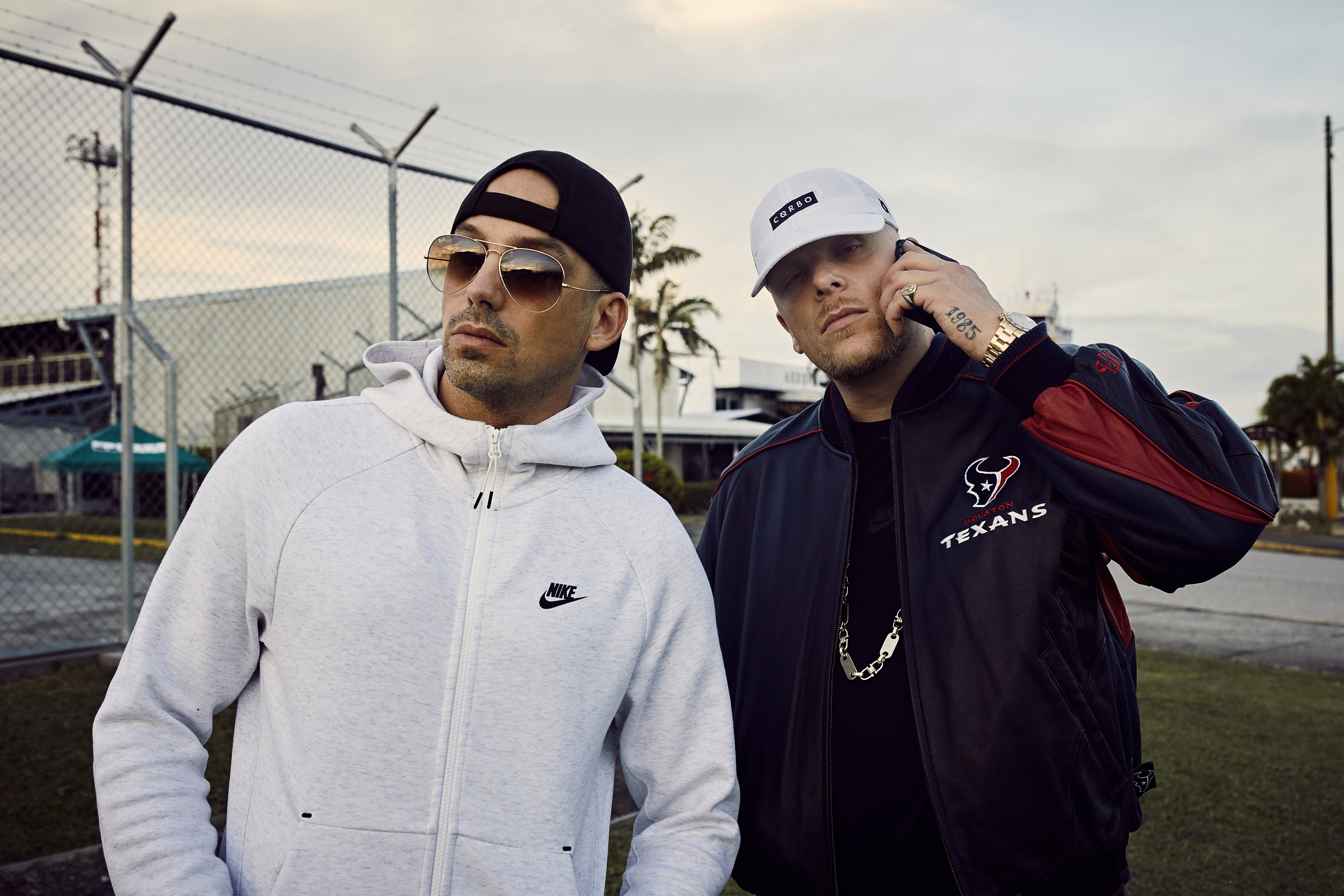 RAF Camora and Bonez MC while working on their new Album "Palmen aus Plastik 2"